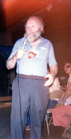 Frank Herbert (science fiction writer) at Octocon science fiction convention at the El Rancho Tropicana hotel in Santa Rosa, California, October 1978